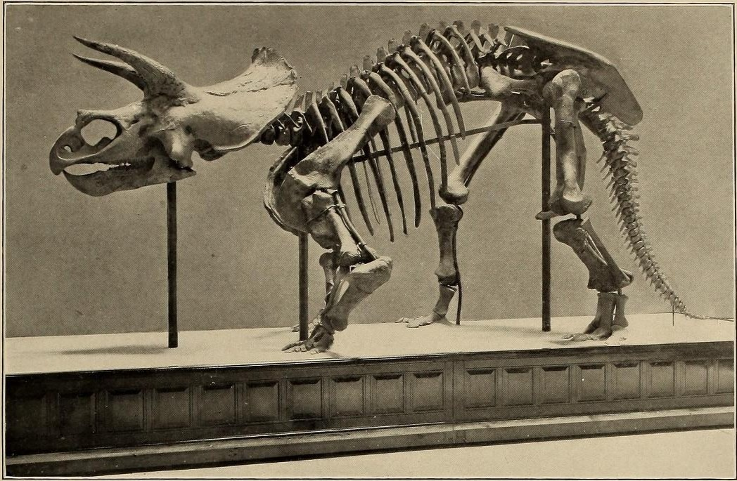 Mounted skeleton of Triceratops, United States National Museum.